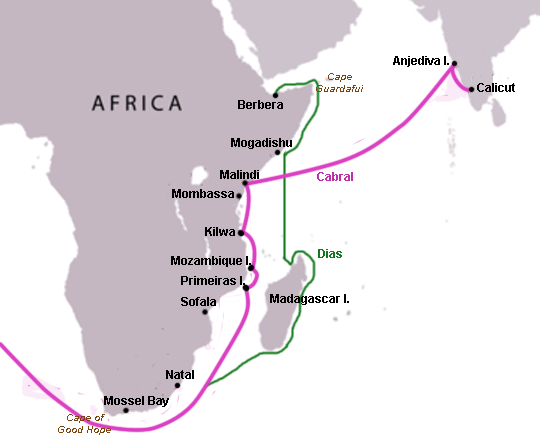 Outward journey of 2nd Portuguese India Armada (Pedro Alvares Cabral, 1500), showing also the likely route of the stray ship of Diogo Dias.